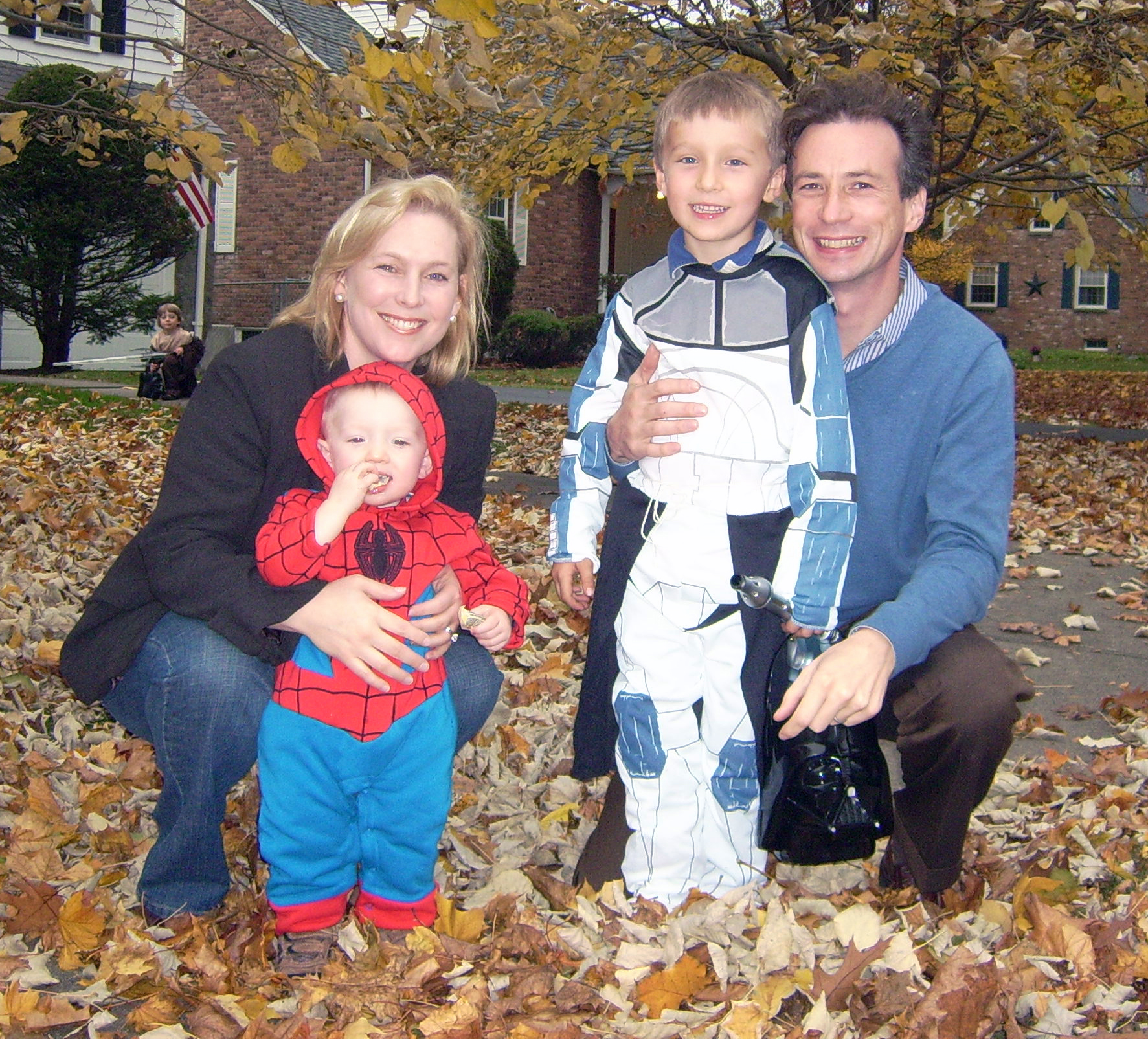 United States Senator Kirsten Gillibrand with (left to right) her sons Henry and Theo (as Spiderman and a stormtrooper, respectively), and her husband Jonathan, on Halloween 2009.